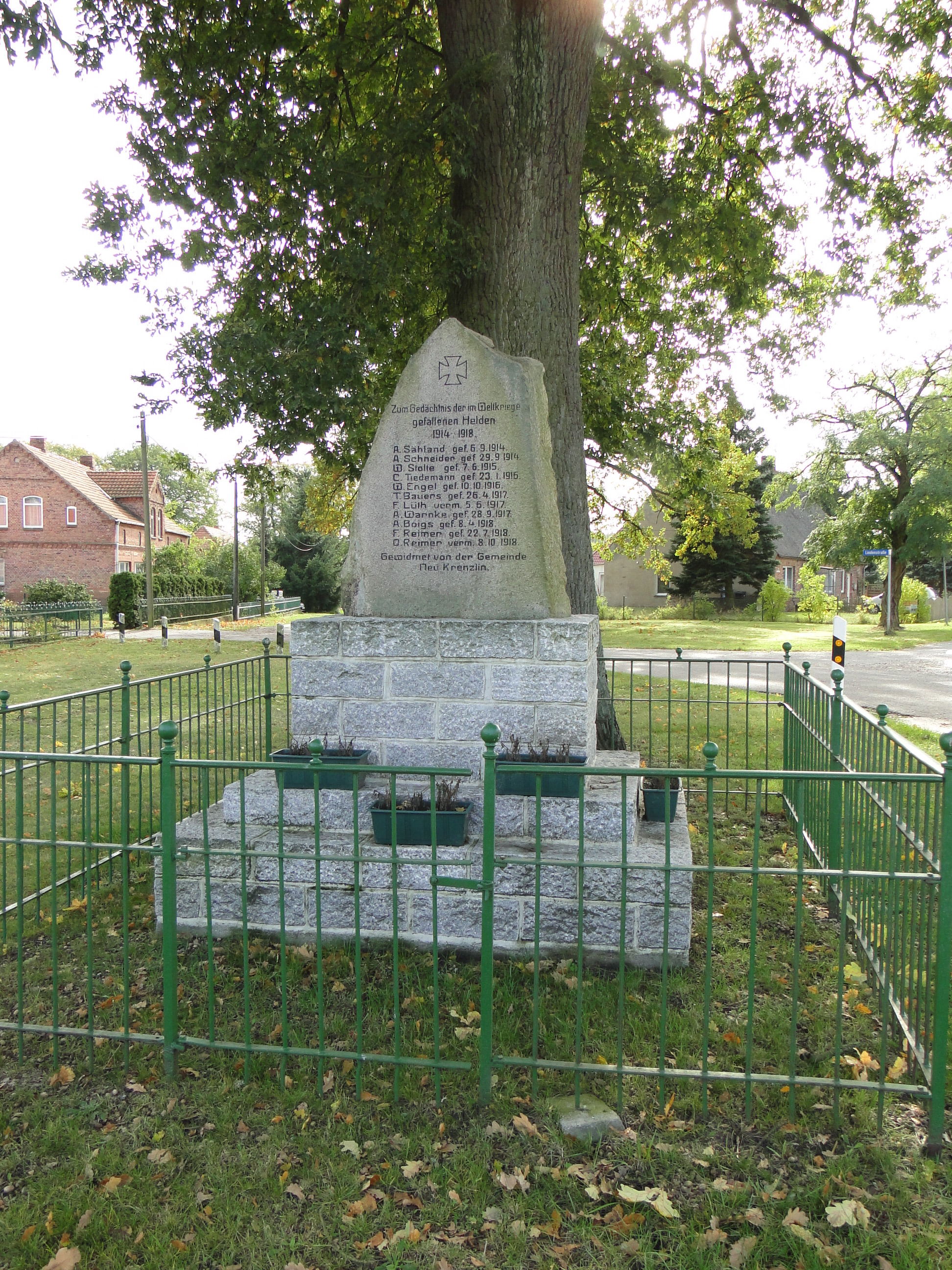 War memorial 1914-18 in Neu Krenzlin, district Ludwigslust-Parchim, Mecklenburg-Vorpommern, Germany